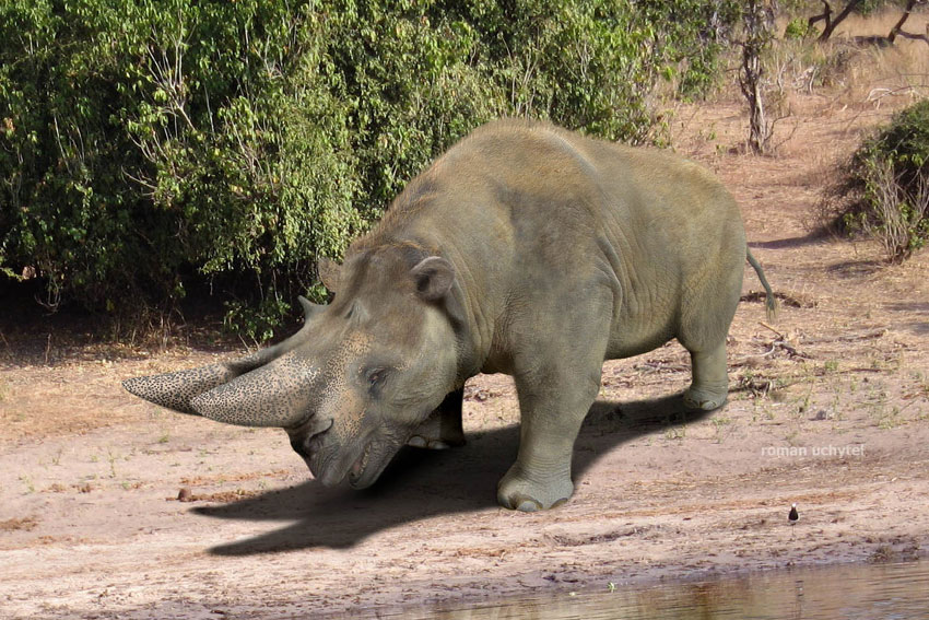 Arsinoitherium